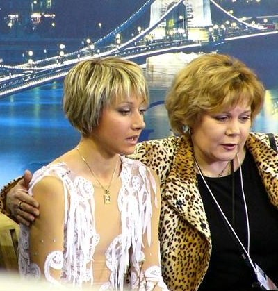 Galina Efremenko (Maniachenko) and their coach Galina Kukhar at the 2004 European Figure Skating Championships